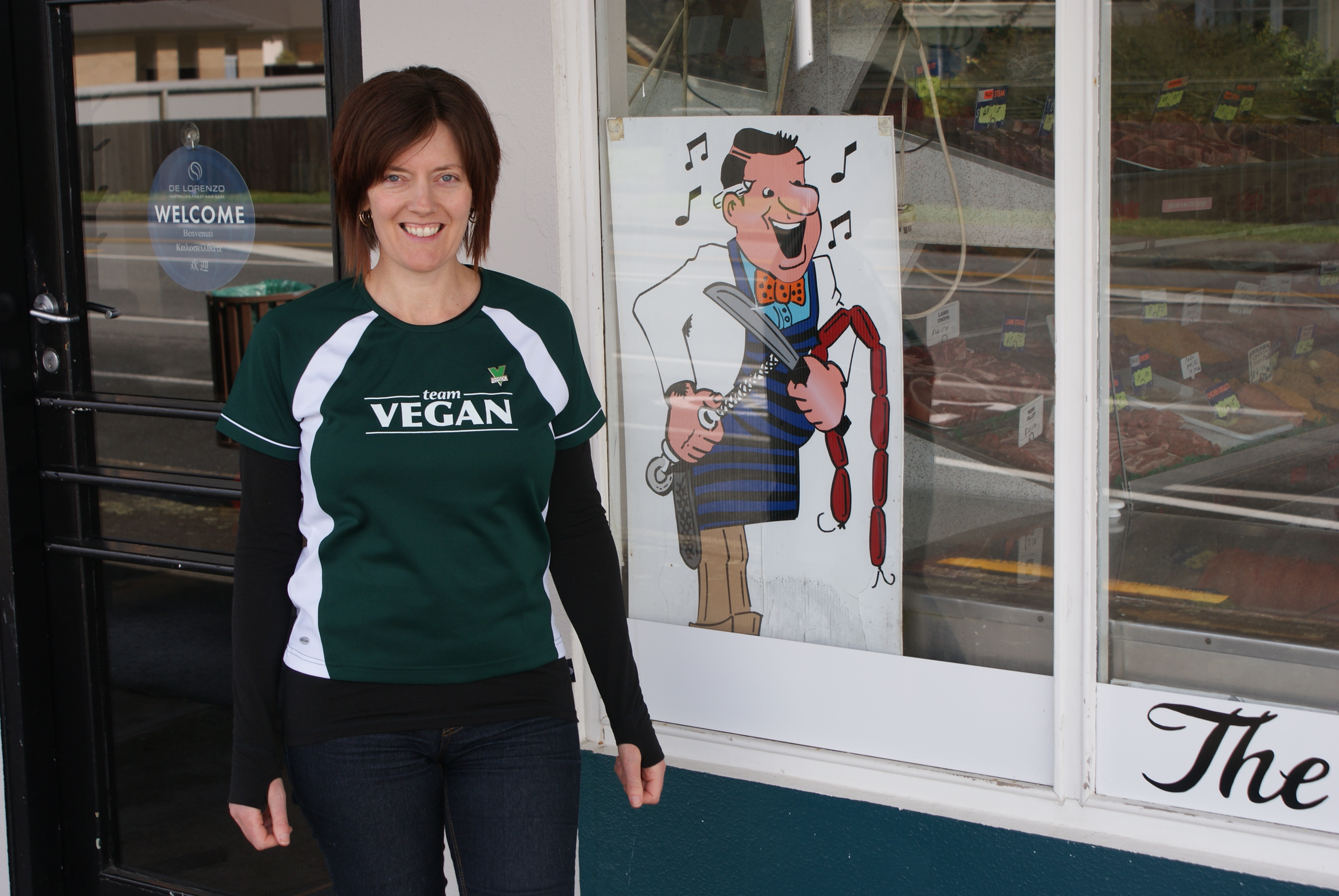 Invercargill Vegan Society members visit local butchers to give them the gift of tofu.